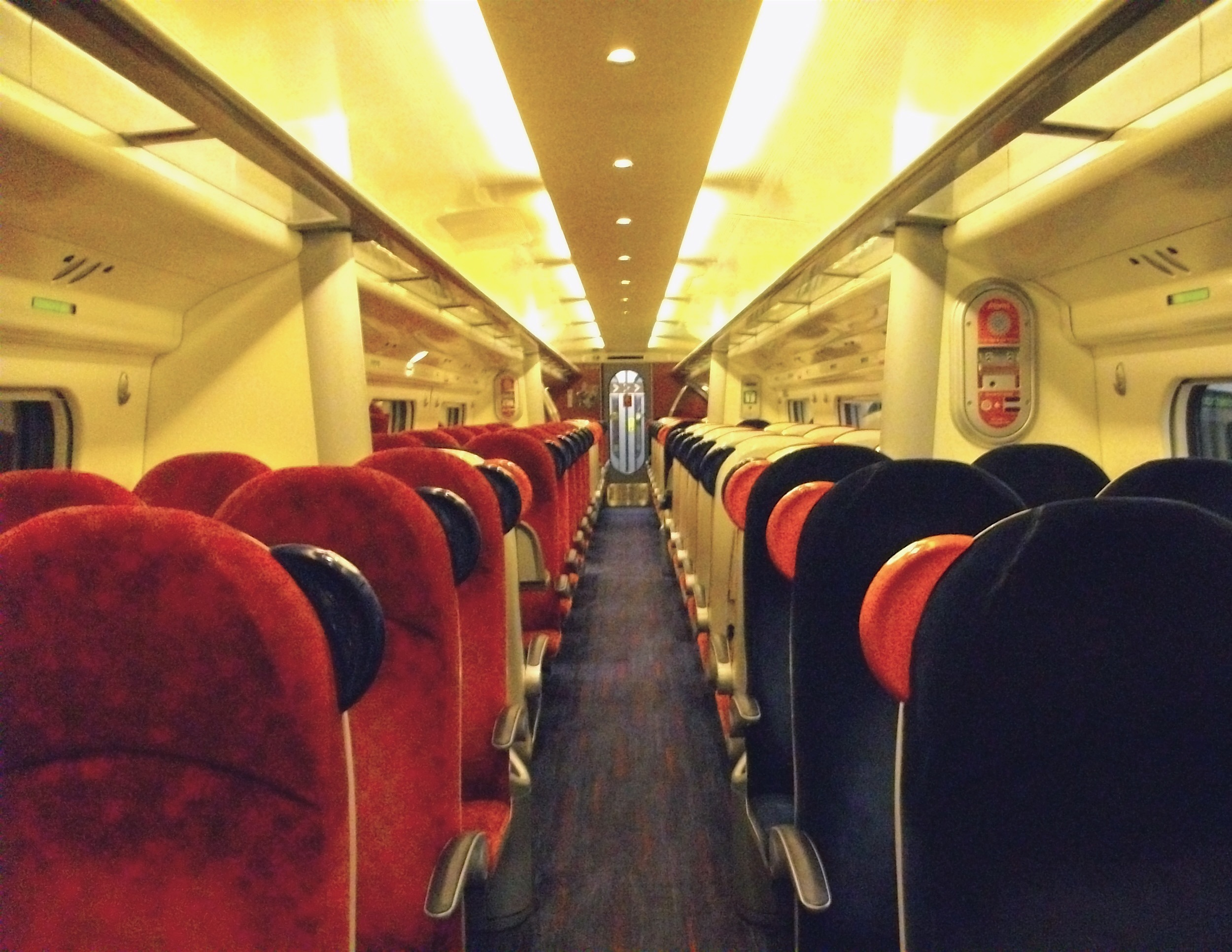 The interior of Standard Class aboard a Virgin Trains Class 390 Pendolino.